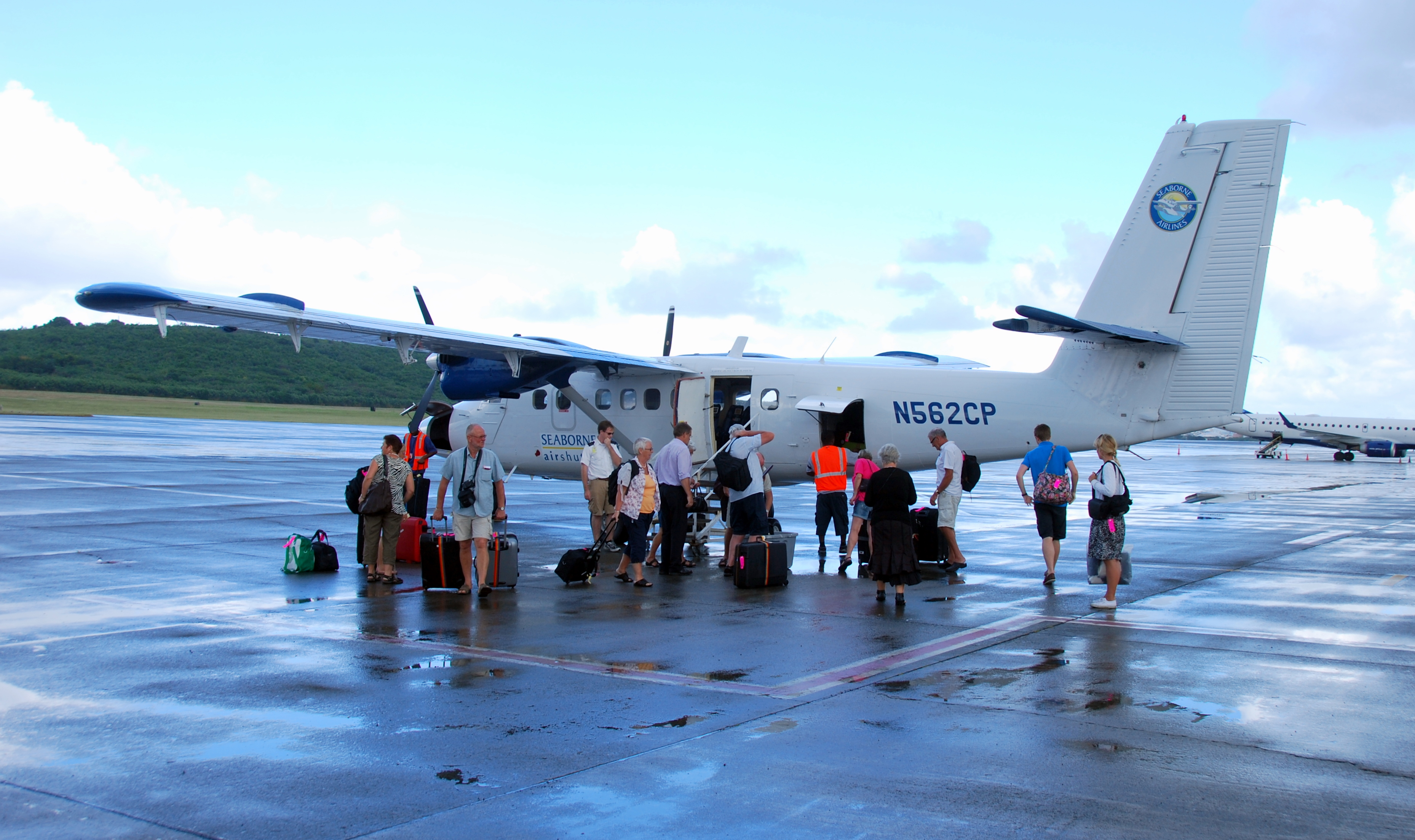 de Havilland Canada DHC-6-300 (N562CP) from Seaborne Airlines, placed at Henry E. Rohlsen Airport (STX) after a flight from St. Thomas.